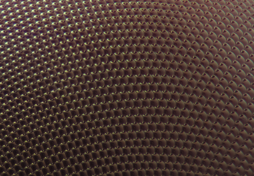 Fly's eye